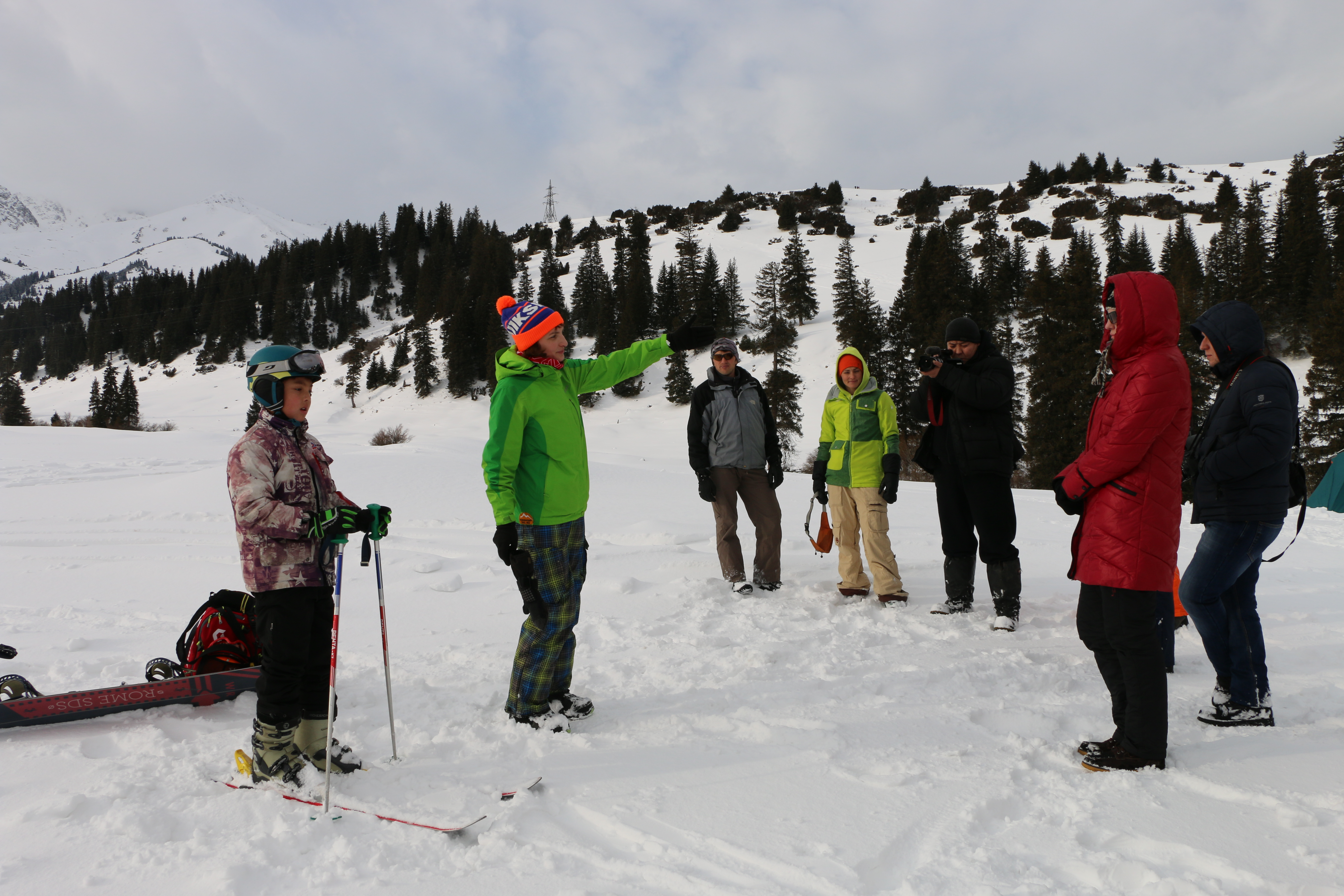 Instructors train back country ski guides in avalanche safety outside Jyrgalan village.